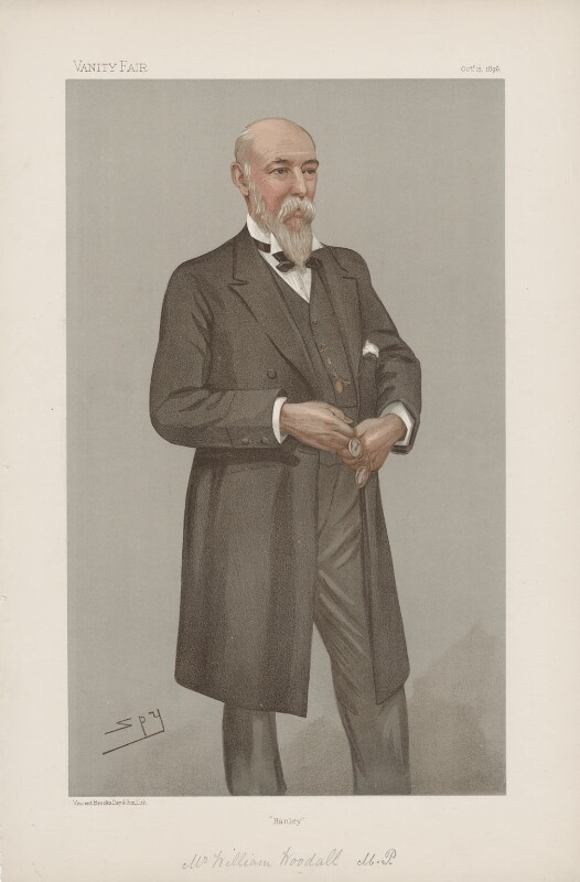 A caricature of Mr William Woodall MP (1832-1901) by 'Spy', captioned 'Hanley'.